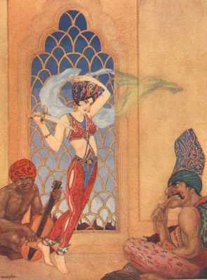 Arabian Nights Images - Lacy Hussar Lacy Hussar get credit for the illustations in this edition of The Arabian Nights' Entertainments published by Houghton Mifflin Company copyright 1921 and 1929. The bad news is, I only found 4 illustrations in the entire 350-page book. The good news is, they're lovely color plates, and they inlude Morgiana dancing, which is the one I show here. Her costume looks more in-period for the artist than for the story, but it's cool in any case. This pic is captioned "After she had danced several dances with much grace, she drew the poniard." I figure that must be the robber captain at the right; he looks pretty nasty.